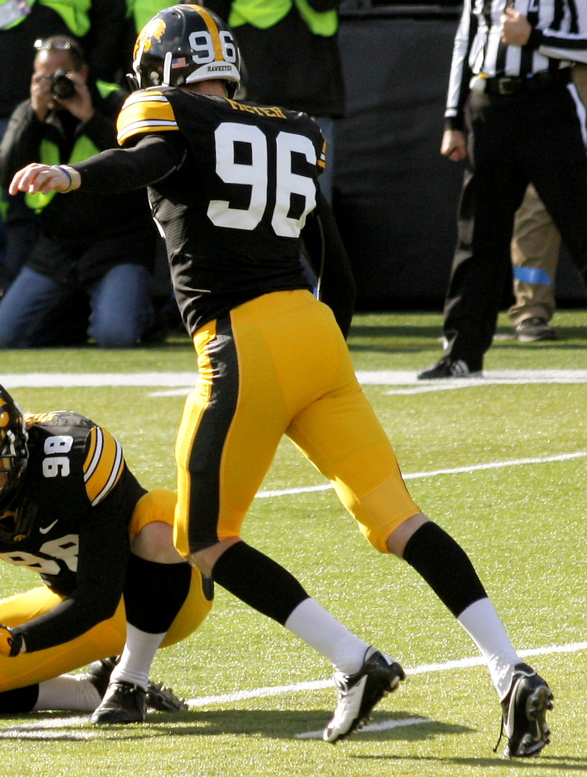 The Hakweyes kicker Mike Meyers about to make a field goal. He scored all 9 of Iowa's points in the game. Photos from the November 2 football game between the University of Wisconsin-Madison and the University of Iowa at Kinnick Stadium. The Badgers won 28-9.